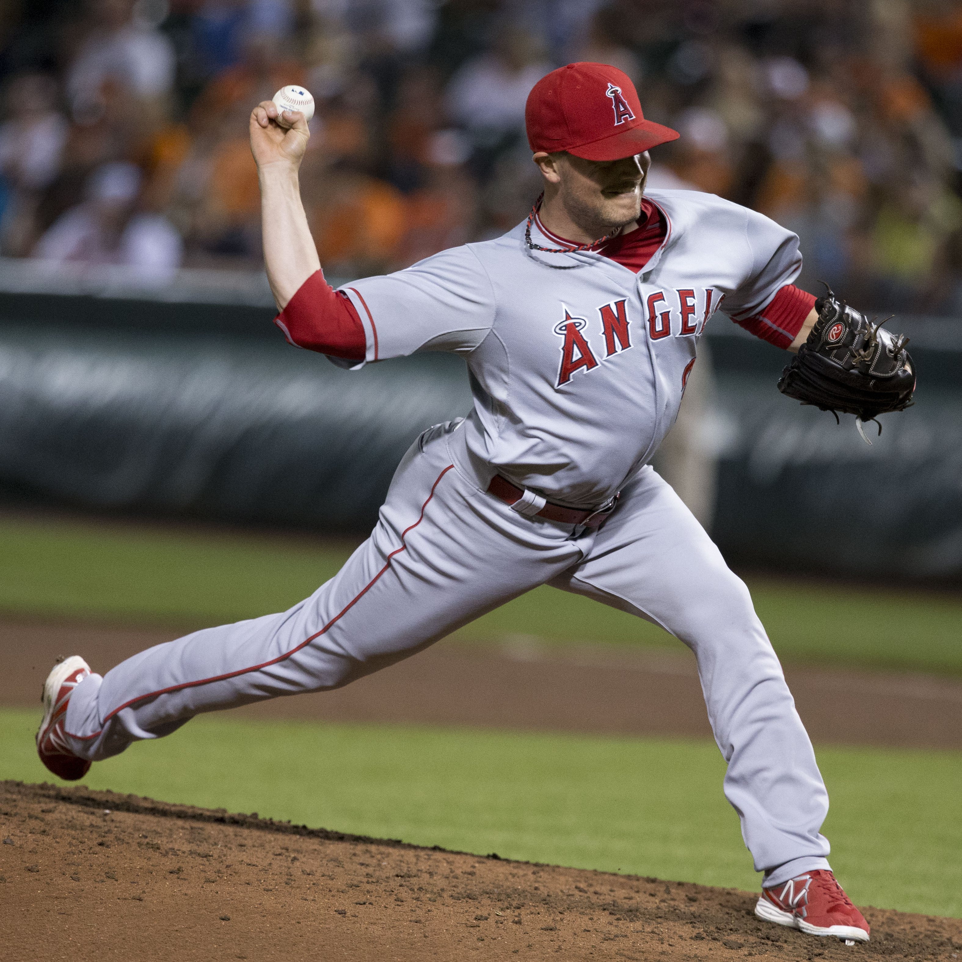 Joe Smith